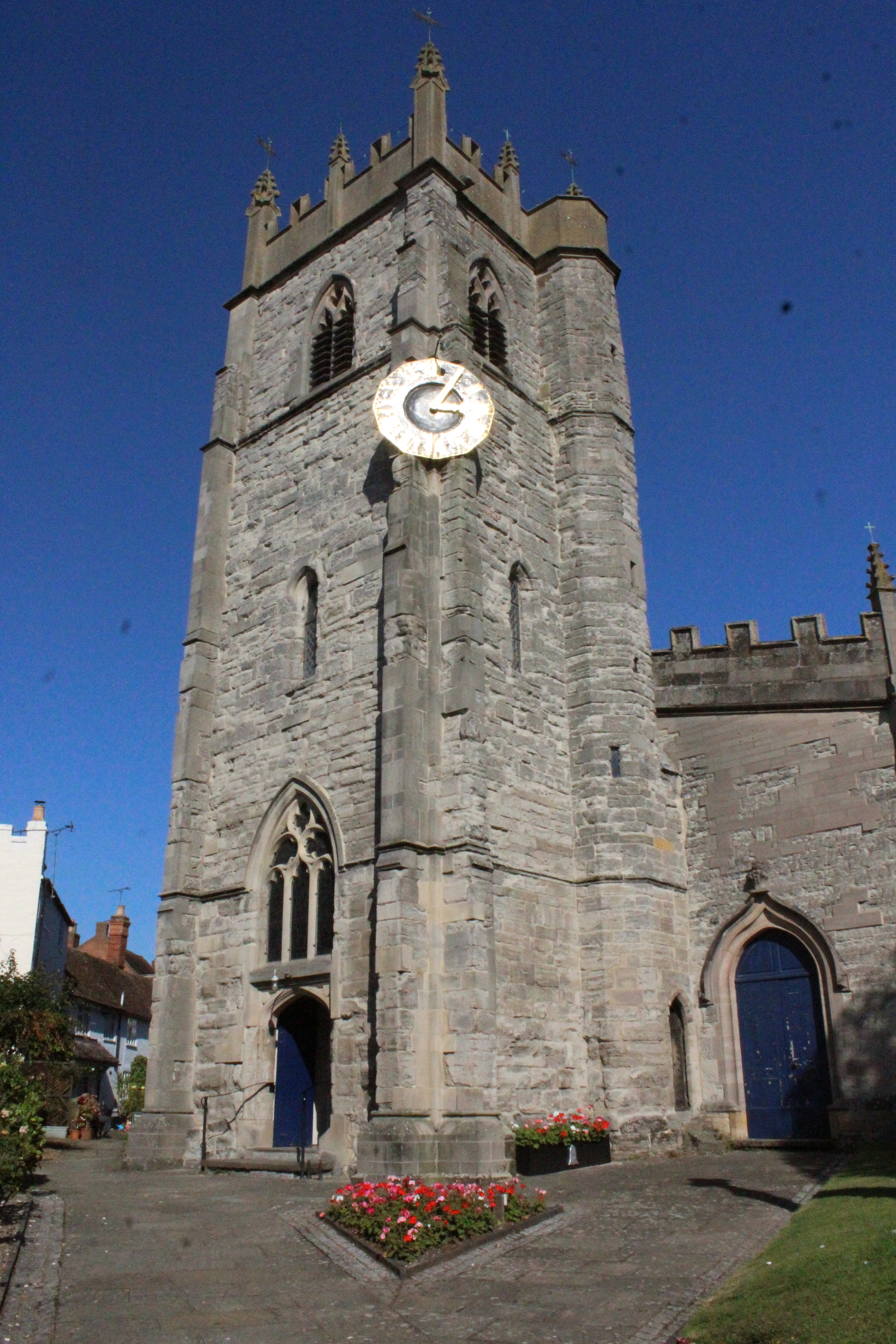 Tower of St Nicholas' Church, Alcester, Warwickshire, England